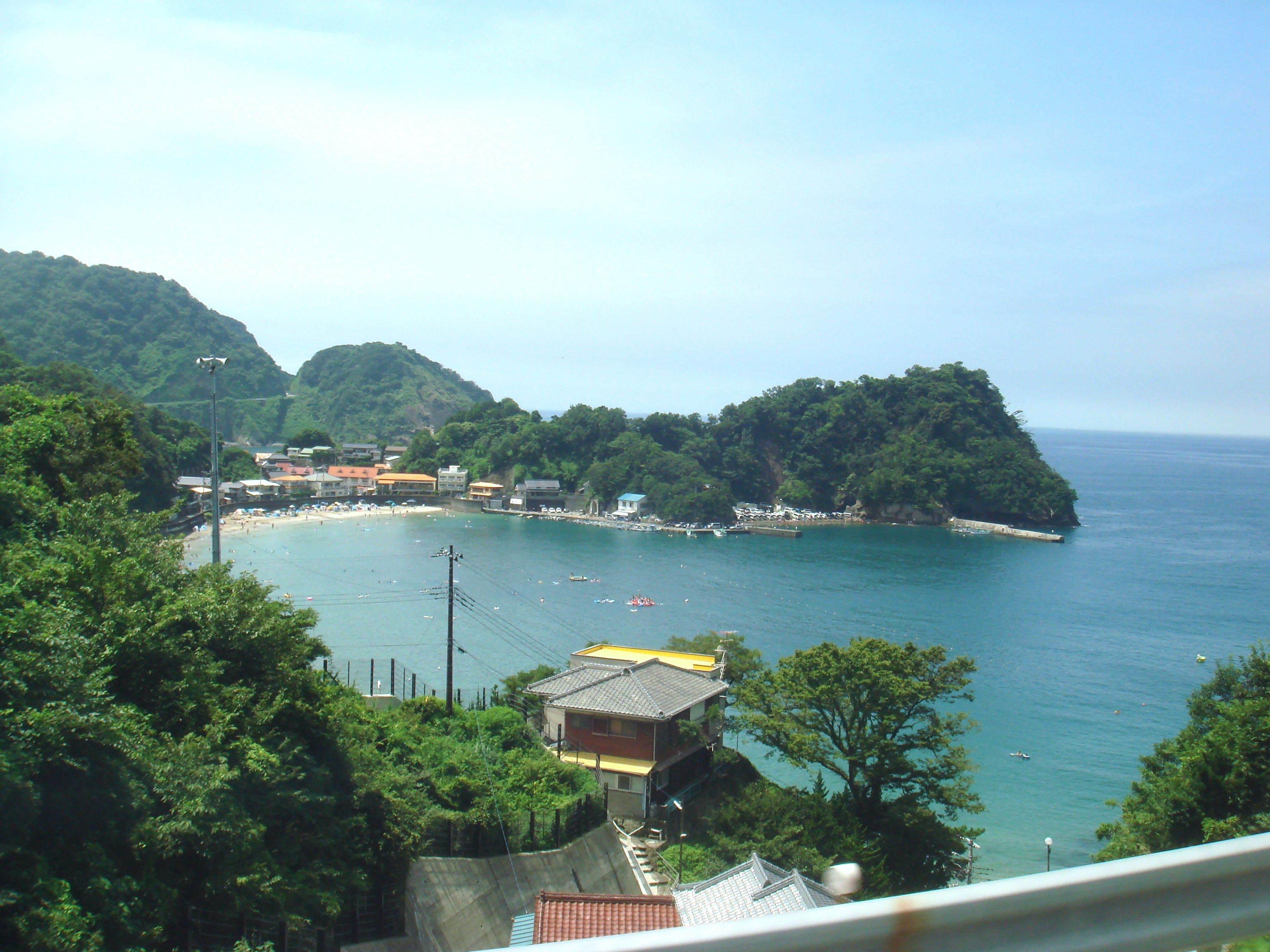 Izu Cote d Azur, Iwachi (岩地). This beach is located in Matsuzaki town, Shizuoka prefecture, Japan.